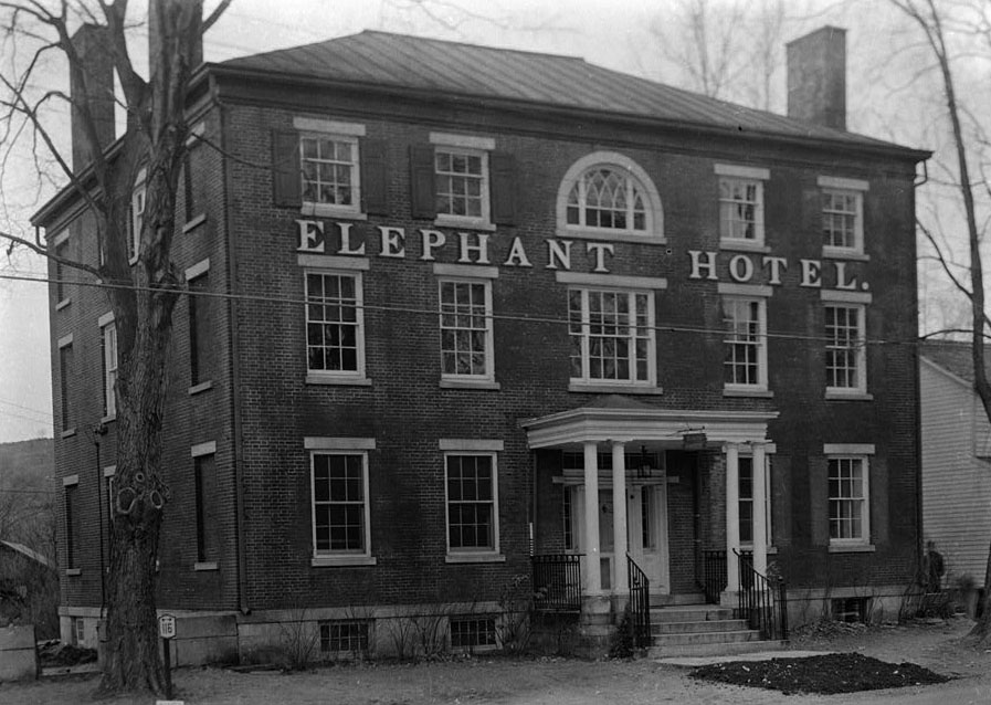 Historic American Buildings Survey photo of Dyckman House, oldest farmhouse in Manhattan